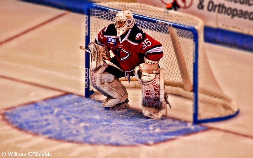 Jeff Jakaitis in his first regular season game with the SC Stingrays for the 2017-2018 season.